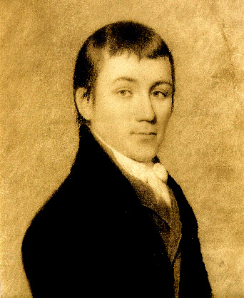 Charles Brockden Brown